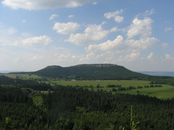 Szczeliniec Wielki i Szczeliniec Mały in Góry Stołowe Mountans. View from Fort Karola.